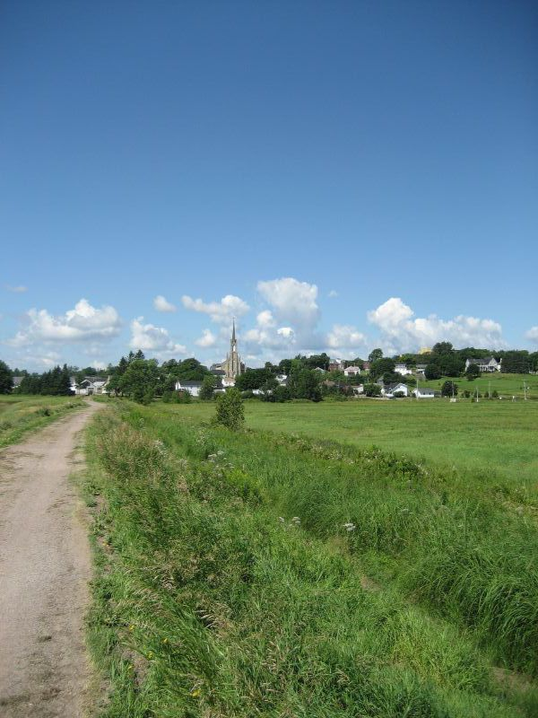 View of Saint-Joseph area, Memramcook, New Brunswick.